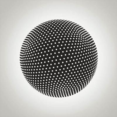 fgghv